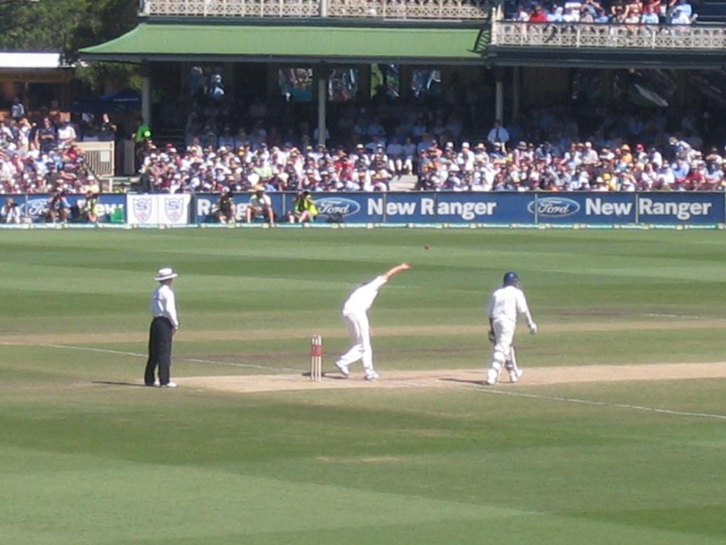 Glenn McGrath bowling a wicket-taking delivery at Kevin Pietersen at the SCG in 2007.